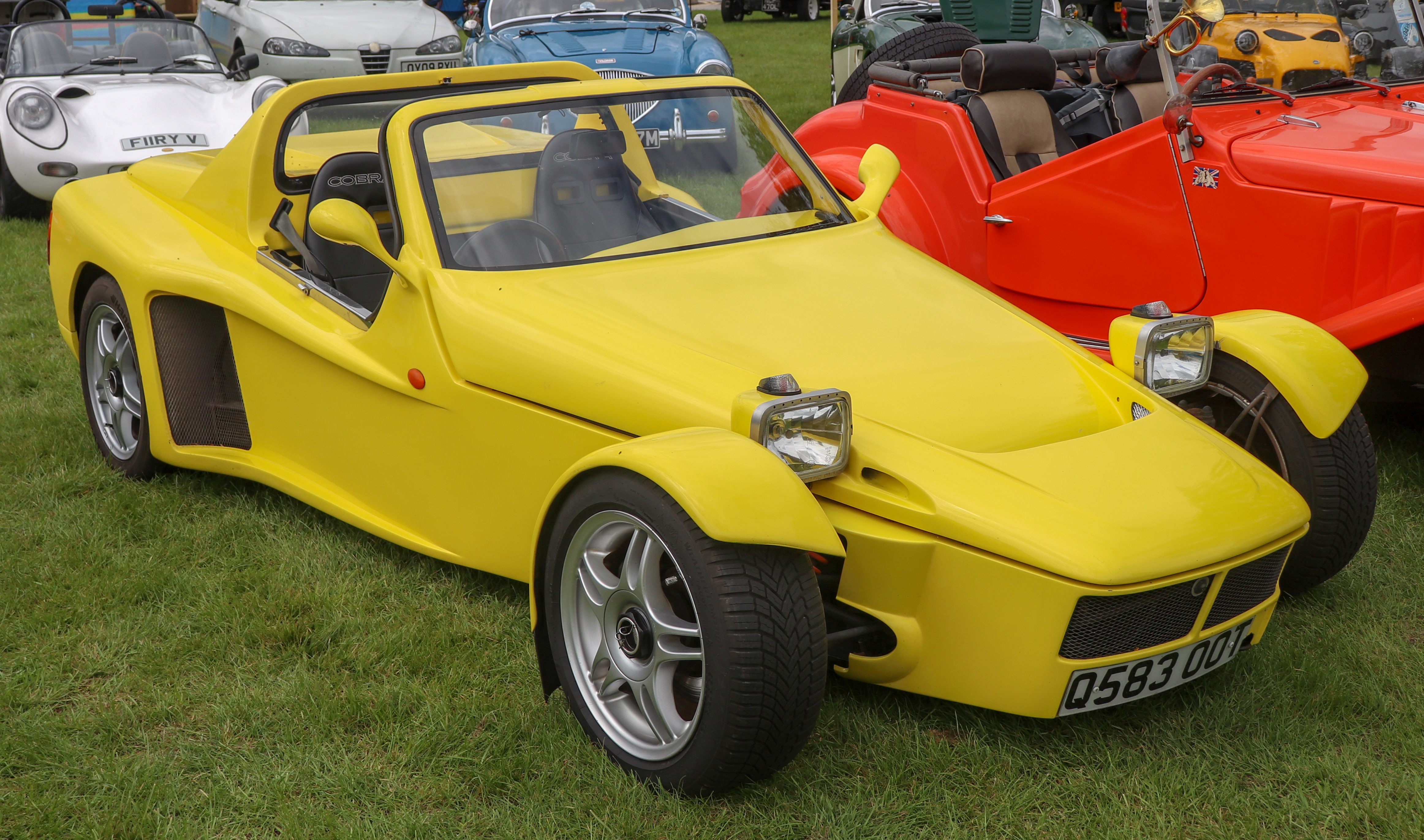 2005 Car Craft Cyclone 2.0 Front Taken at the Stoneleigh National Kit Car Motor Show 2019